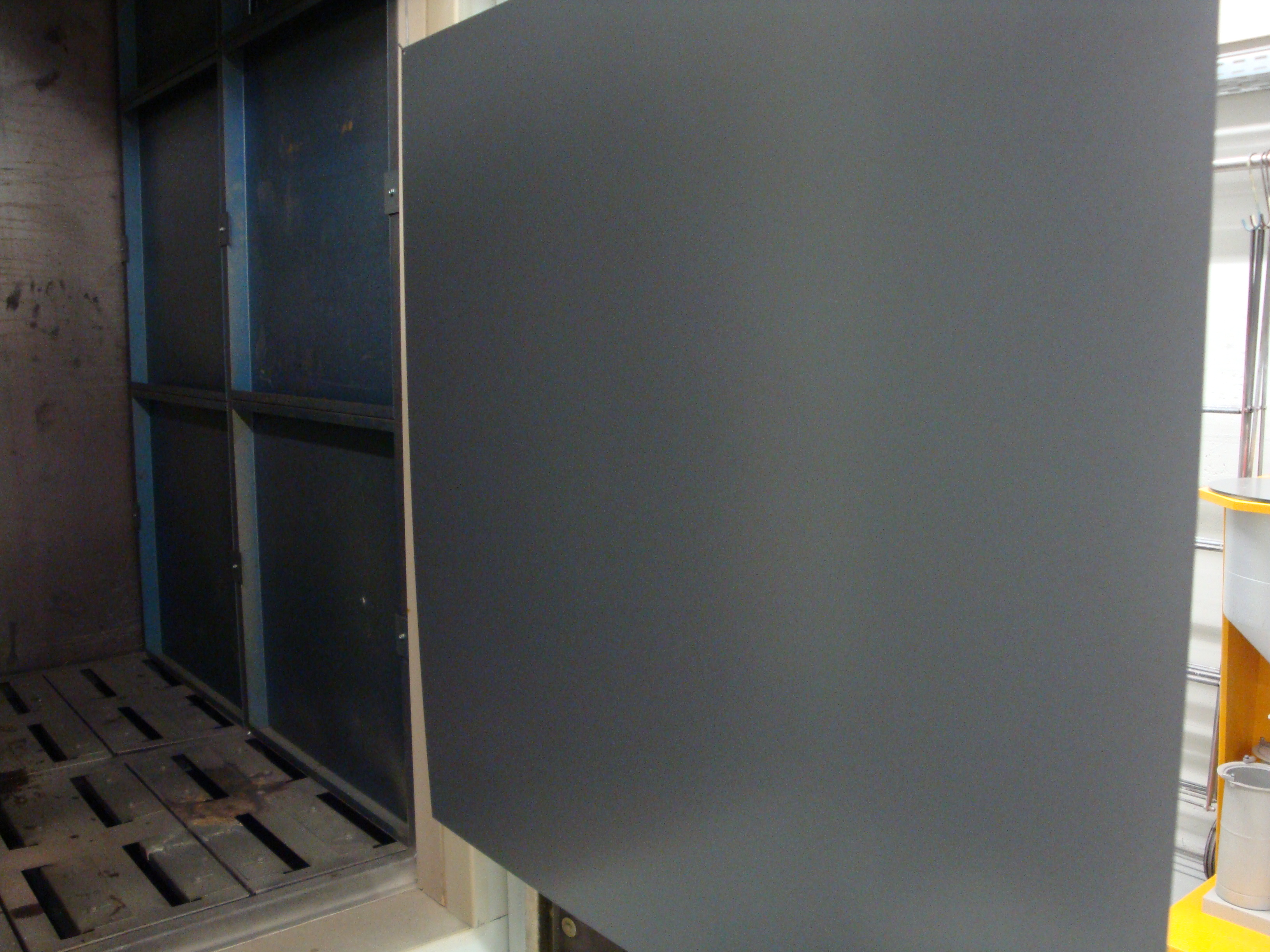 Paint oven